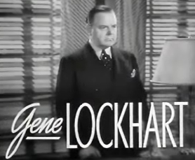 Cropped screenshot of Gene Lockhart from the trailer for the film Bridal Suite.